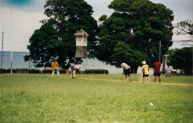 Cricket being played on Palm Island, Queensland